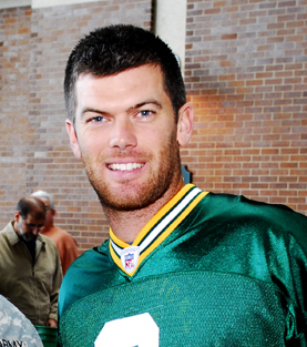 Green Bay Packers placekicker, Mason Crosby, attending the second annual Pros vs. GI Joes event at Lambeau Field October 15, 2010